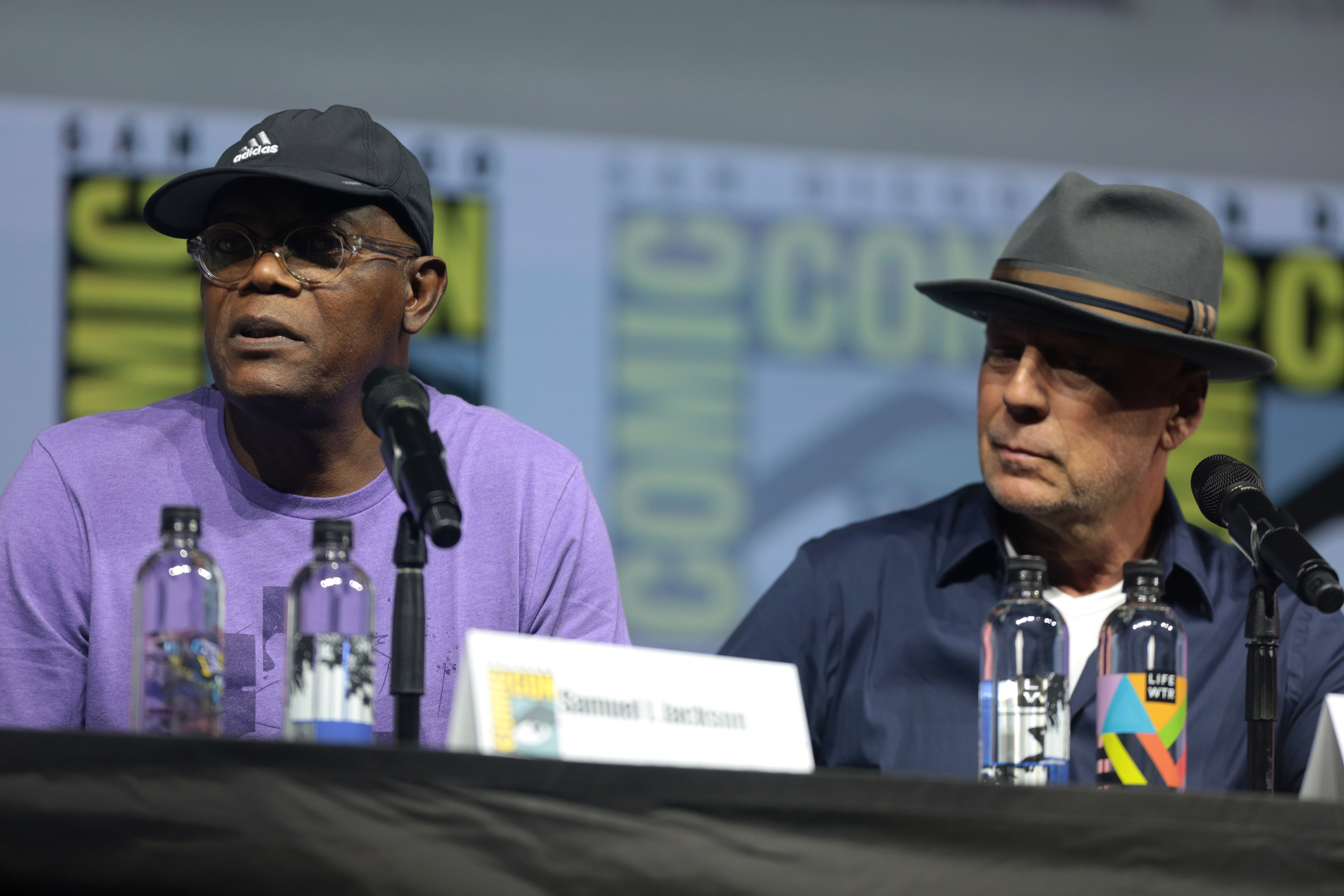 Samuel L. Jackson and Bruce Willis speaking at the 2018 San Diego Comic Con International, for "Glass", at the San Diego Convention Center in San Diego, California.